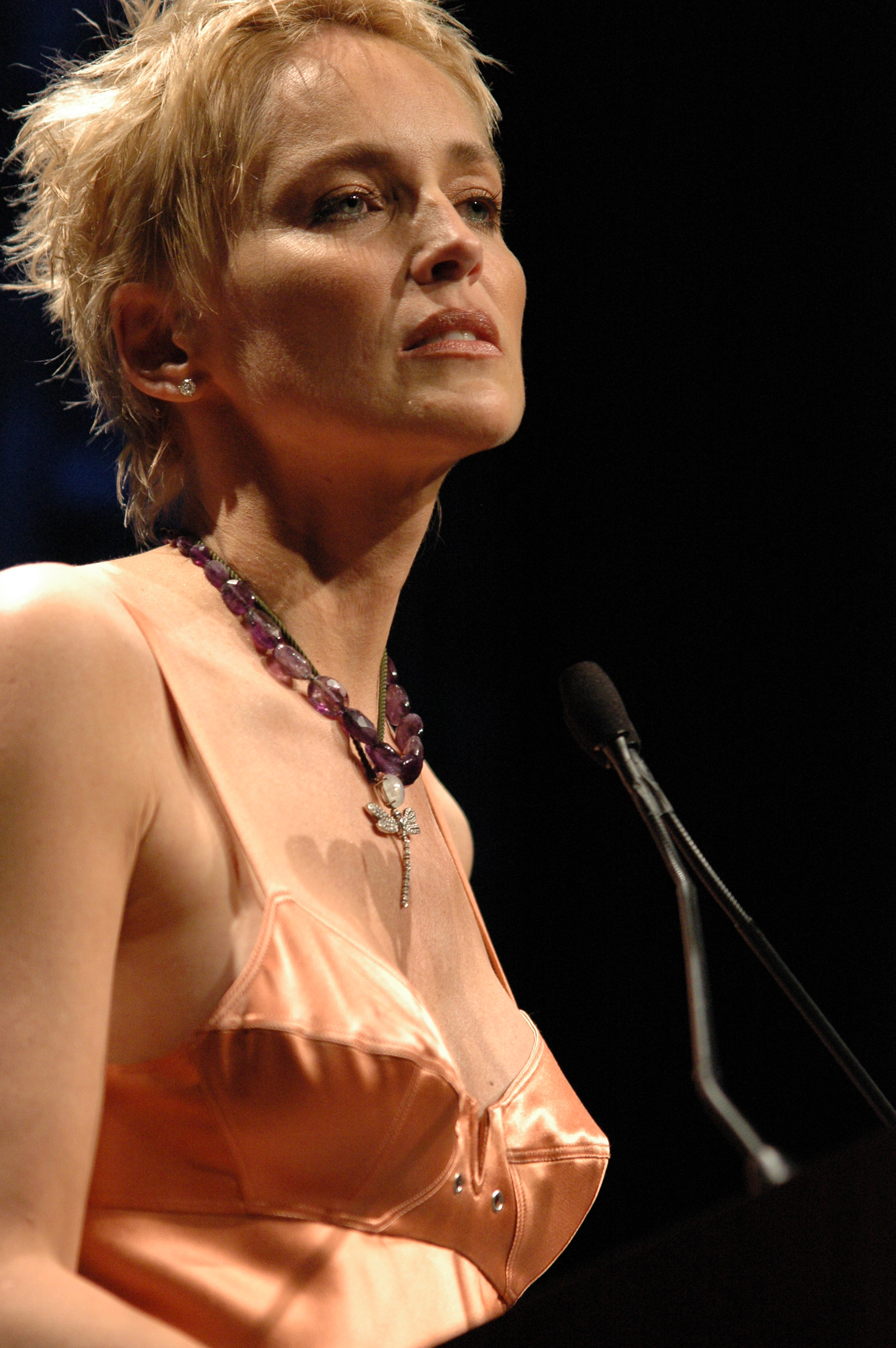 Sharon Stone speaking in San Francisco.